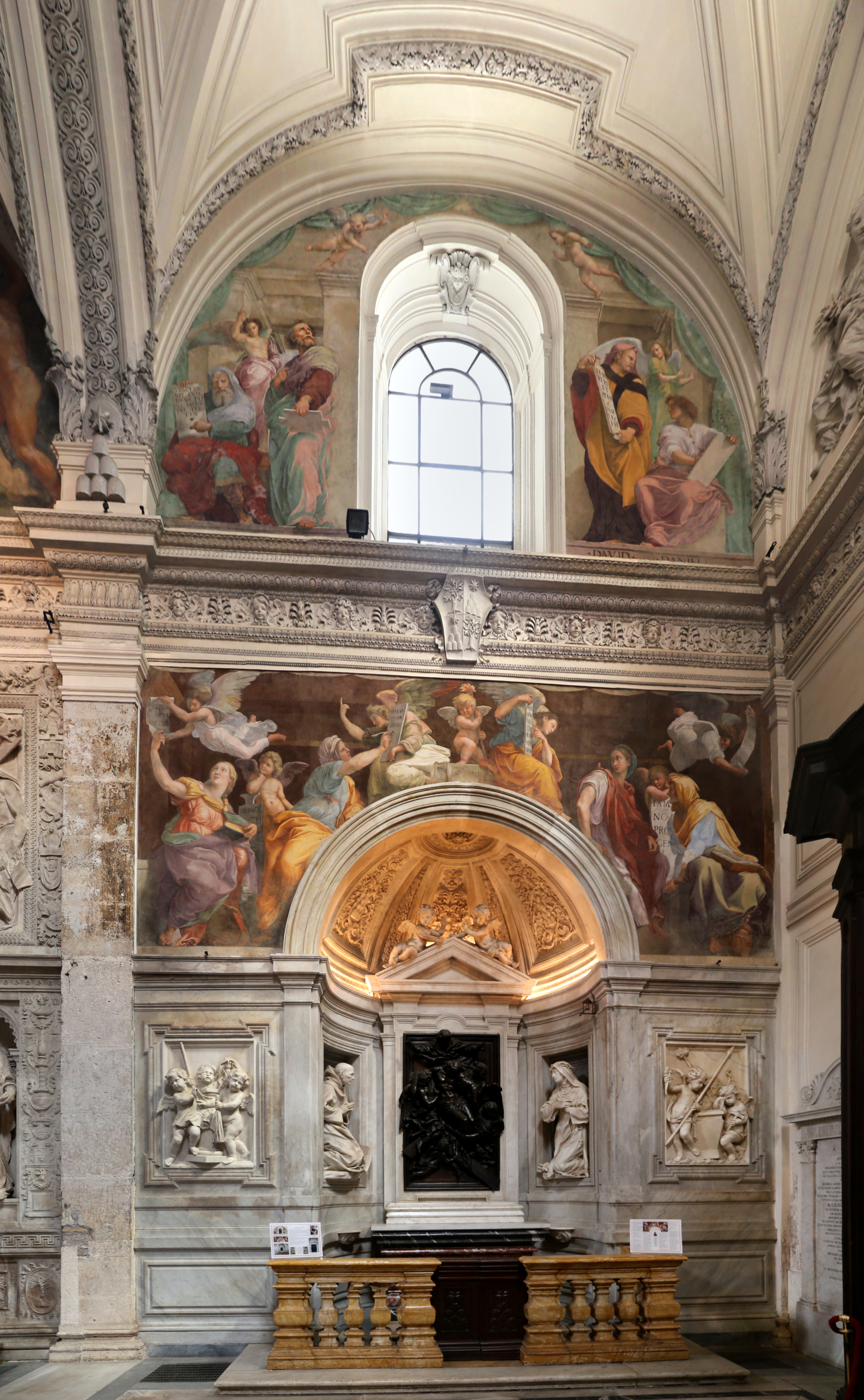 Santa Maria della Pace (Rome) - Cappella Chigi